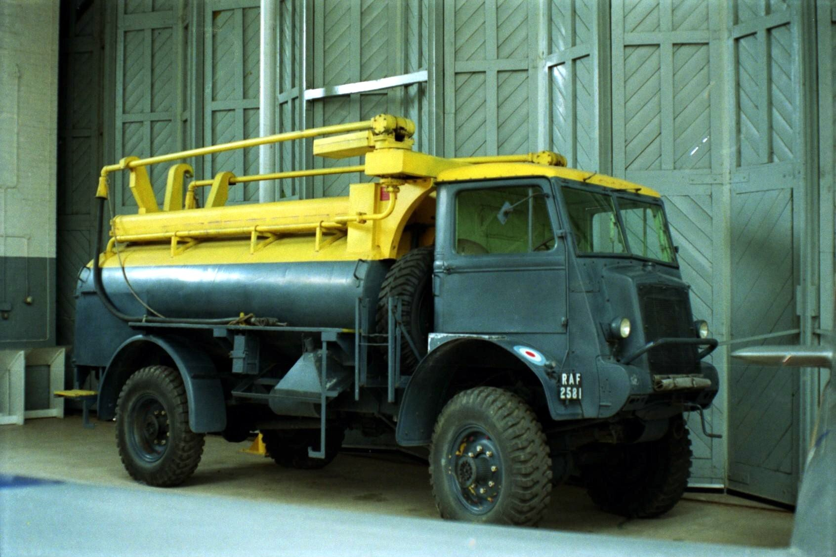 second world war Royal Air Force Bedford QL aircraft re-fueling truck